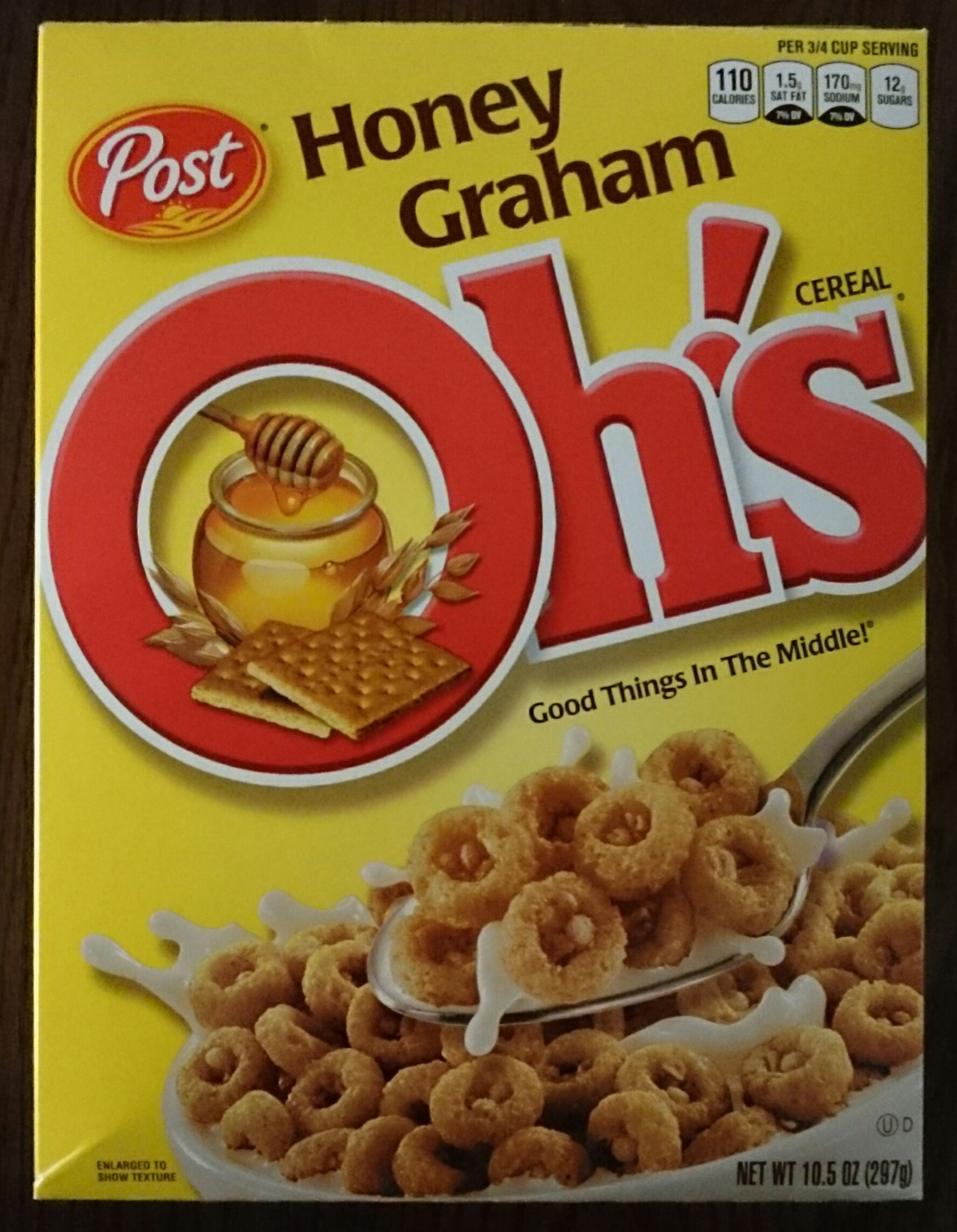 Updated image to show current Post brand